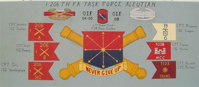 The 1-206th Memorial Barrier at Camp Buehring, Kuwait. Units deploying through Camp Buehring tradionally paint one of the many concrete barriers that provide force protection around the base. This one shows the units that were assigned to the 1-206th Field Artillery during OIF 08-09